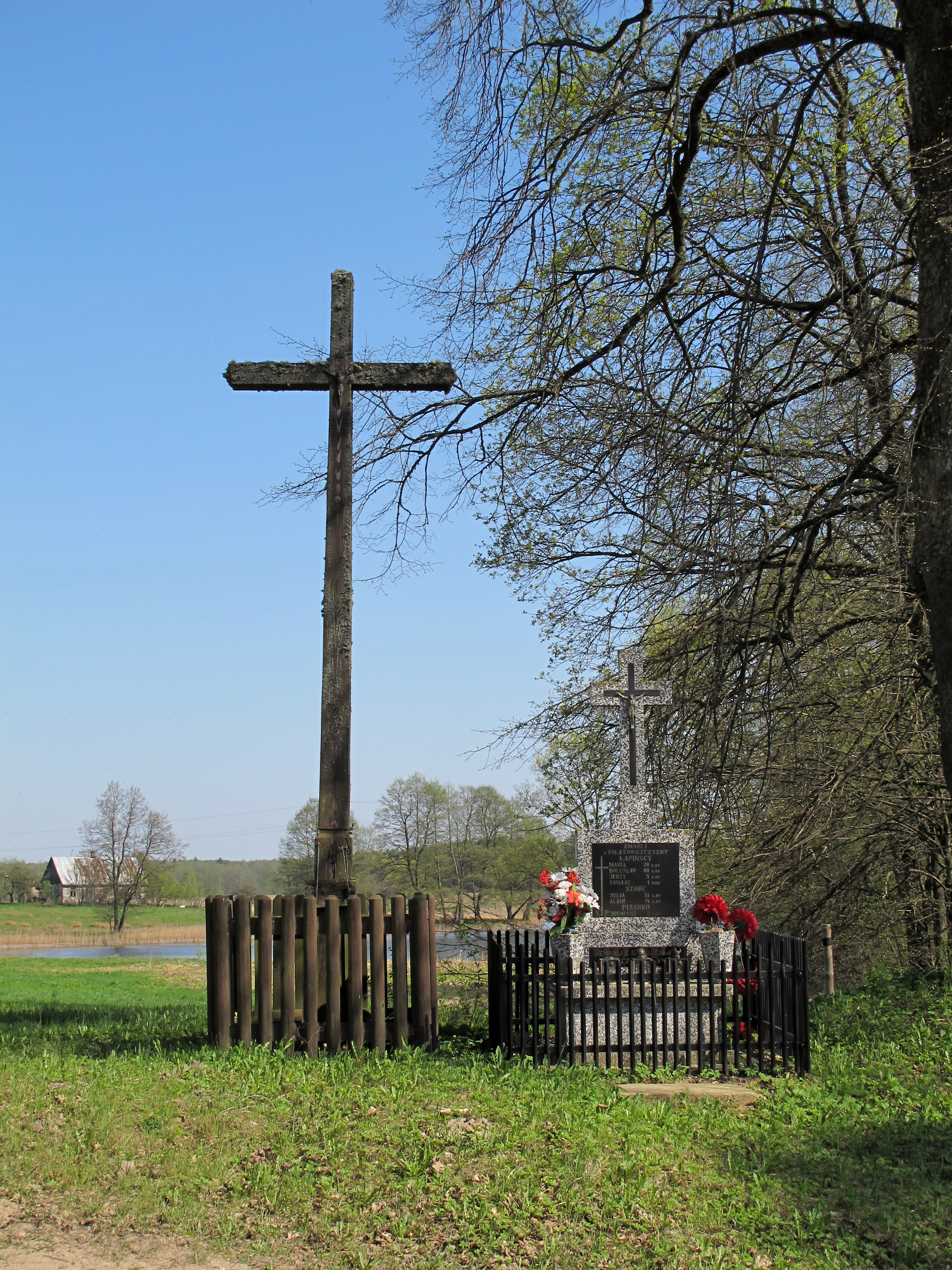 Cross and an siberian deportees memorial at western entrance to Piłatowszczyzna village, gmina Gródek, podlaskie, Poland